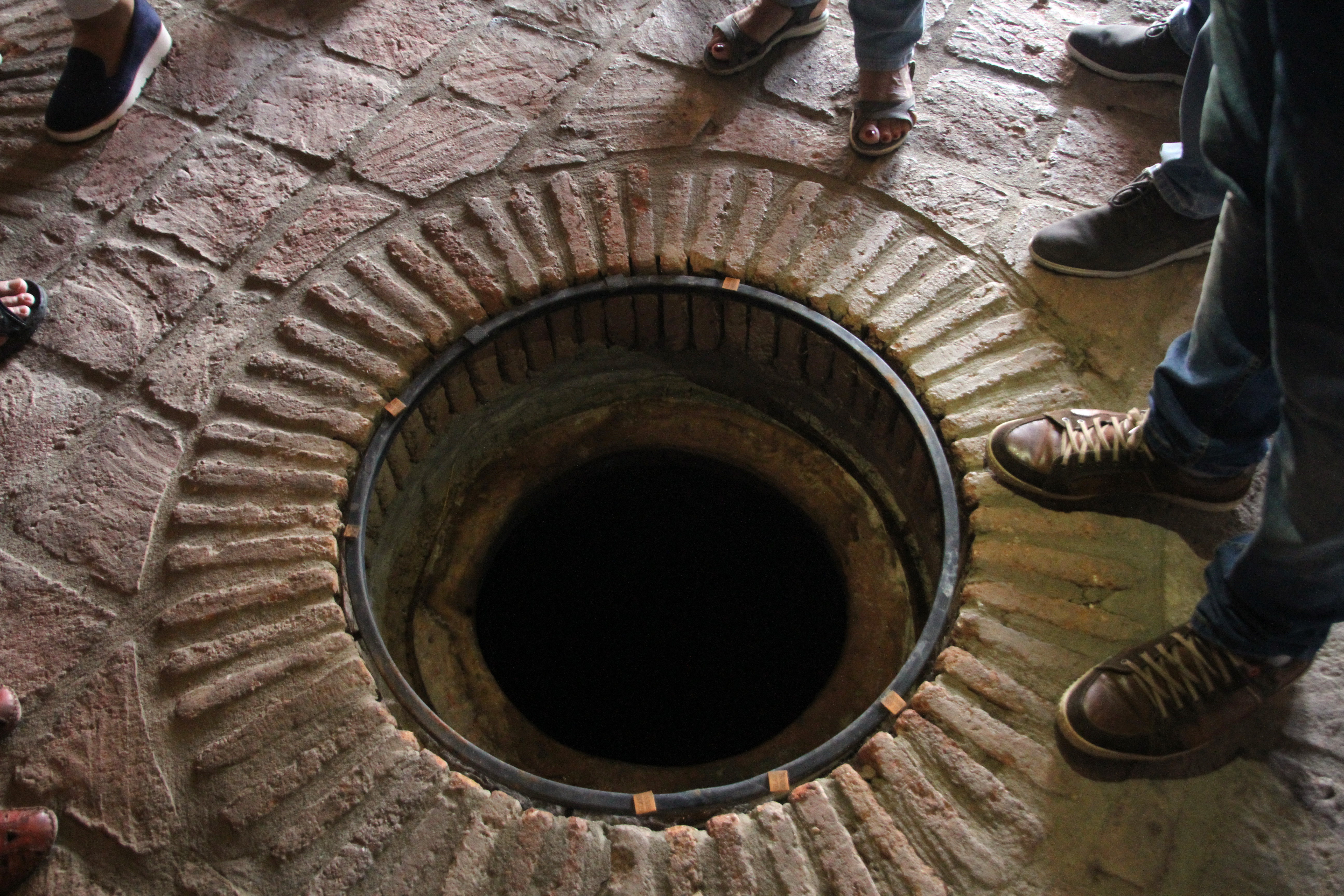 Mosmieri vinery in Georgia